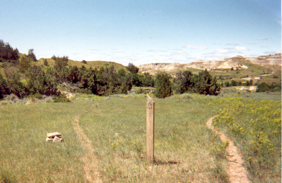 A photo from the Maah Daah Hey Trail. Tip: stick to the trail on the slanted side of the guideposts.